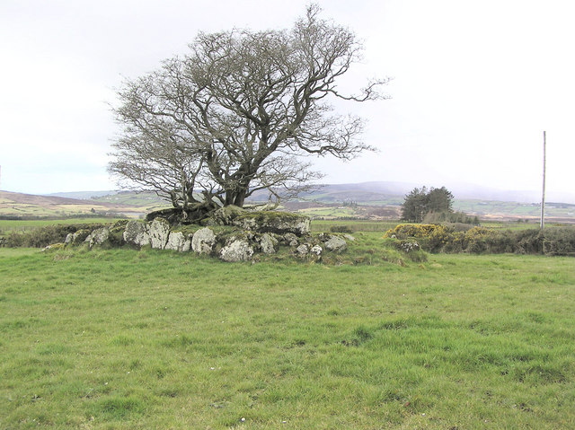 Chambered Grave at Loughmacrory Hill. It is very easily accessed from the main road